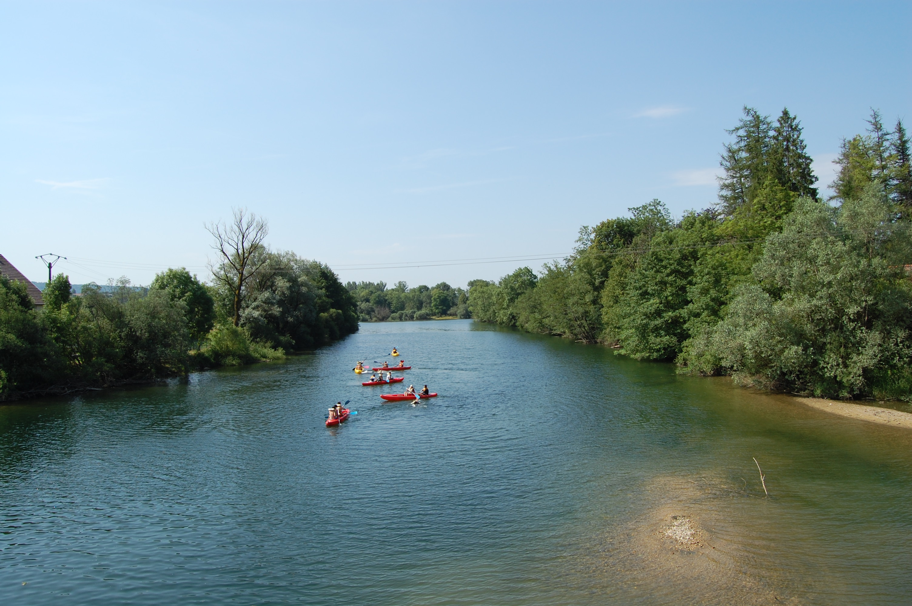 Pont-du-Navoy is a village au board of the river Ain in France.